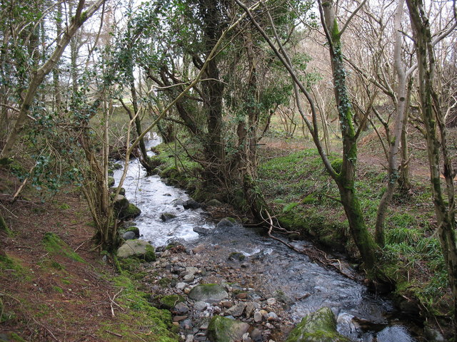 Afon Hen approaching Pont y Felin